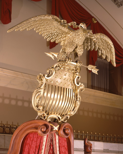 Eagle and Shield, a gilded wood sculpture located over the dais in the Old Senate Chamber in the United States Capitol. Its exact origins are unknown, but is thought to date from around 1834. The sculpture was used in the Senate chamber until 1859, when the Senate moved to its new chamber and the Supreme Court took over the room. It was replaced when the Old Senate Chamber was restored. The sculpture is 53.5 inches (135.9 cm) high, 72 inches (182.9 cm) wide, and 23 inches (58.4 cm) deep.